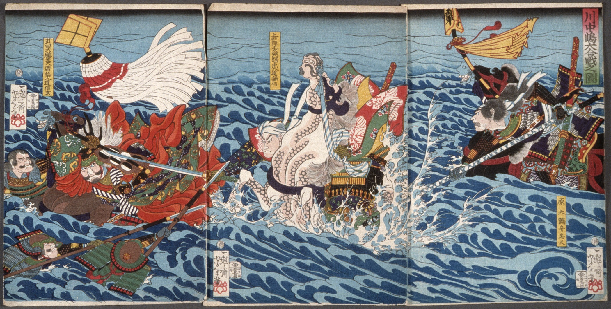 Japan, 1866 Alternate Title: Kawanakajima Okassen no zu Prints; woodcuts Triptych; color woodblock print 14 3/8 x 29 1/2 in. (36.5 x 74.9 cm) Herbert R. Cole Collection (M.84.31.236a-c) Japanese Art